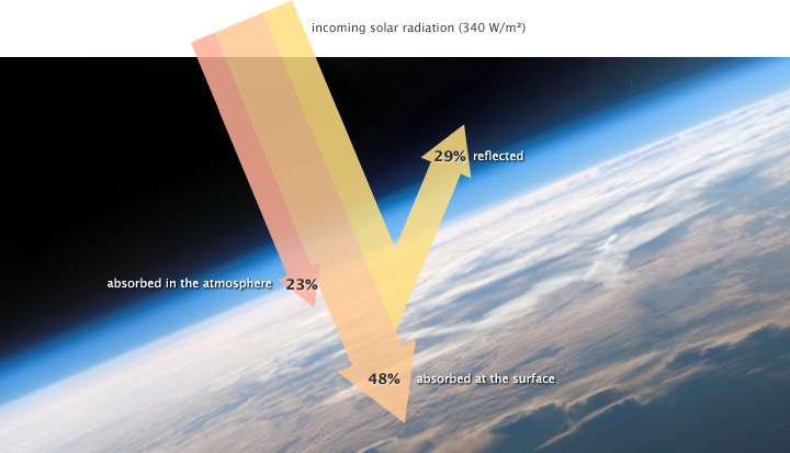 Of the 340 watts per square meter of solar energy that falls on the Earth, 29% is reflected back into space, primarily by clouds, but also by other bright surfaces and the atmosphere itself. About 23% of incoming energy is absorbed in the atmosphere by atmospheric gases, dust, and other particles. The remaining 48% is absorbed at the surface. (NASA illustration by Robert Simmon. Astronaut photograph ISS013-E-8948.)